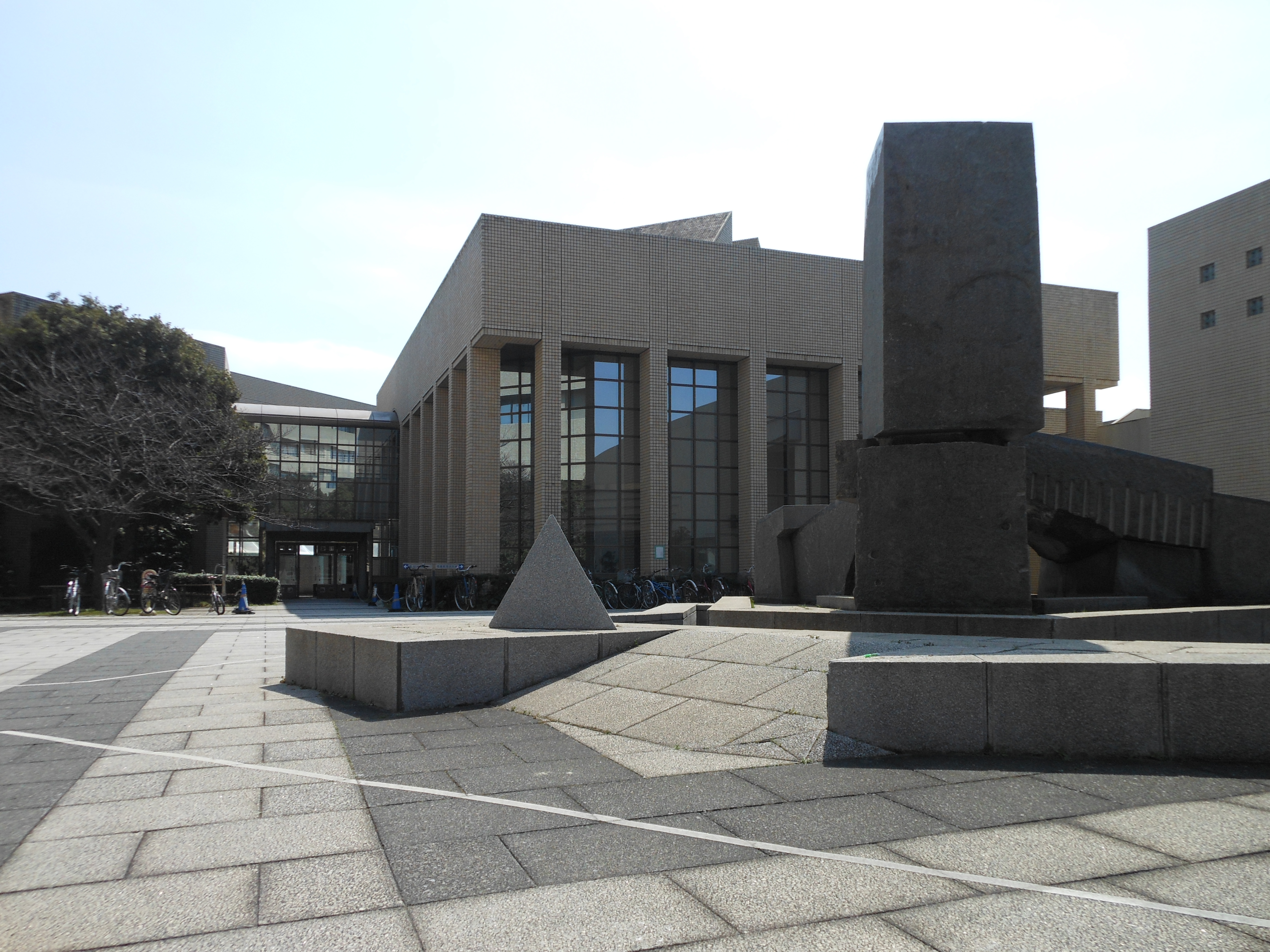 Hepburn Hall at Yokohama City University